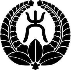 Okubo family crest